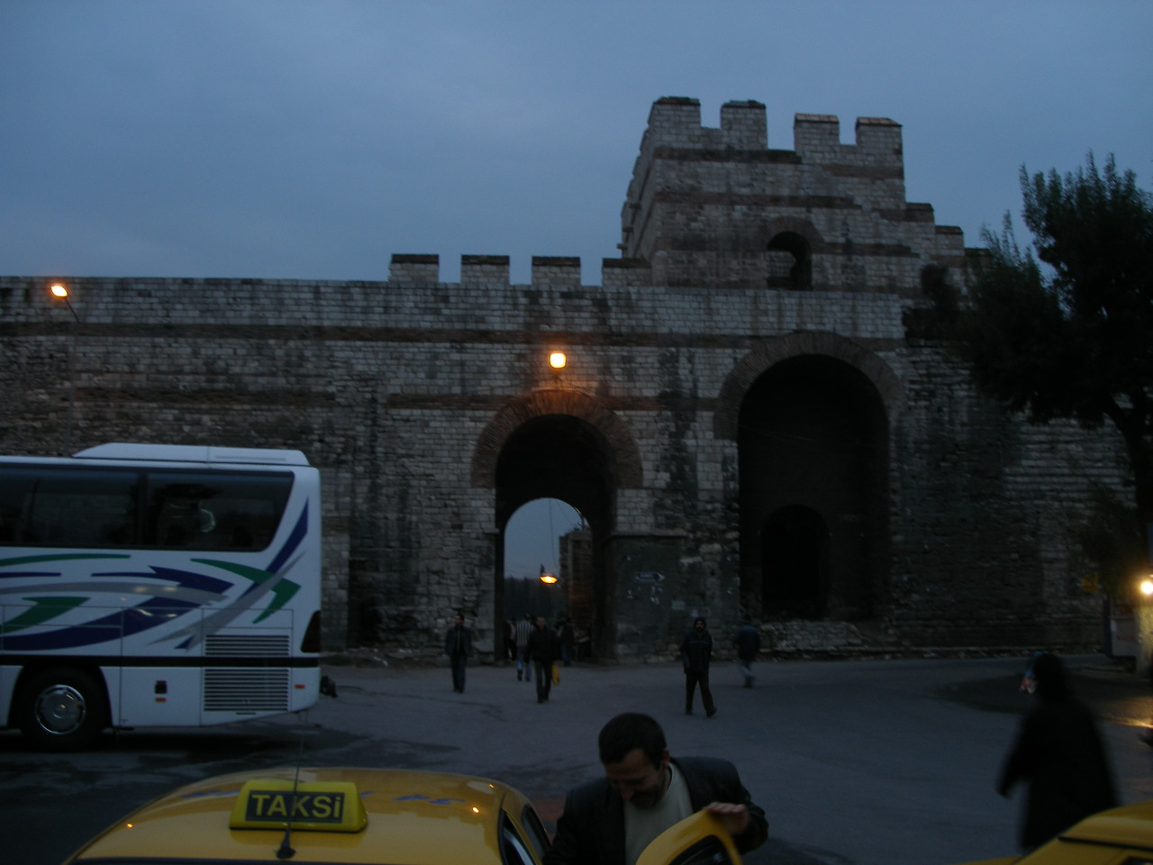 Gate of st. Roman in The Theodosian Walls in Constantinople.